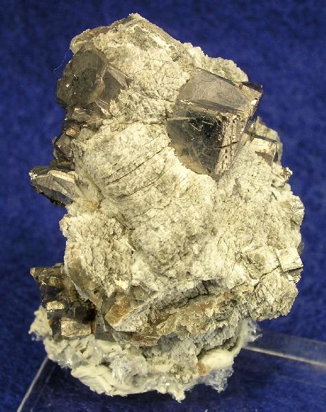 Cobaltite Locality: Espanola, Foster Township, Sudbury District, Ontario, Canada Size: thumbnail, 3 x 2.5 x 2 cm Cobaltite Excellent and rare specimen of Cobaltite crystals, in matrix, from the Sudbury Distric in Ontario. Old classics, these cubic cobaltites are quite different from their more famous and wellknown brethren from Sweden. These silver-gold crystals are sharp, lustrous, and have a fascinating complex habit along the crystal faces. The largest of these Cobaltite cubes ranges up to about .7 cm, and there are over a half-dozen, total, in matrix, of various sizes. Aesthetic, and uncommon for the quality.